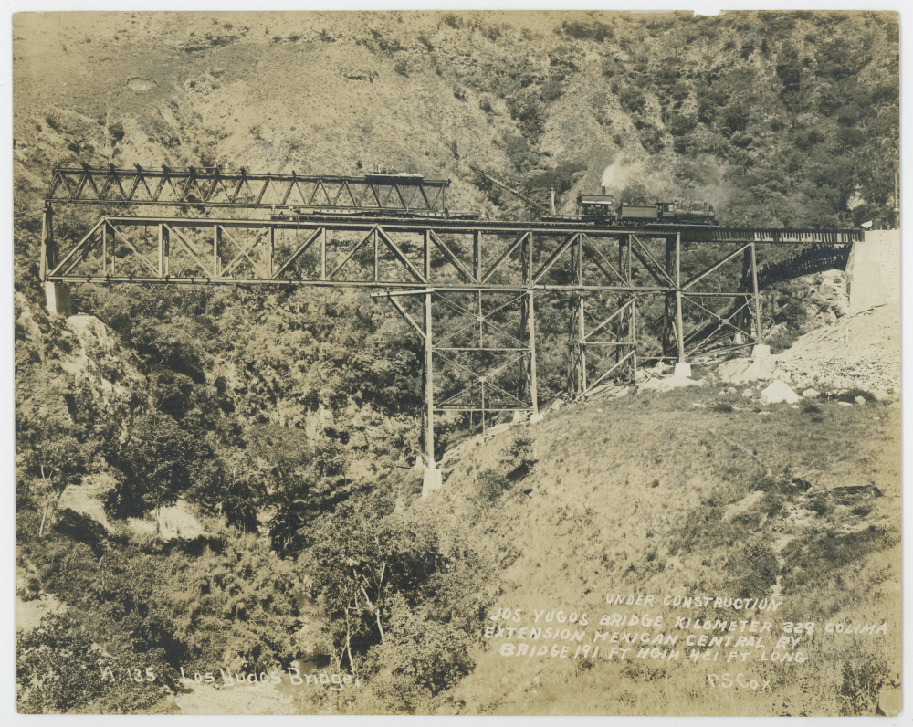 Title: Los Yugos Bridge Creator: Cox, Percy S., ca. 1872-1911 Date: September 16, 1912 Part of: of Mexico/mode/exact Place: Los Yugos, Jalisco, Mexico Physical Description: 1 photographic print: gelatin silver; 19 x 24 cm File: ag1985_0366_40_losyugos_r_opt.jpg Rights: Please cite DeGolyer Library, Southern Methodist University when using this file. A high-resolution version of this file may be obtained for a fee. For details see the web page. For other information, . For more information and to view the image in high resolution, View the rel=